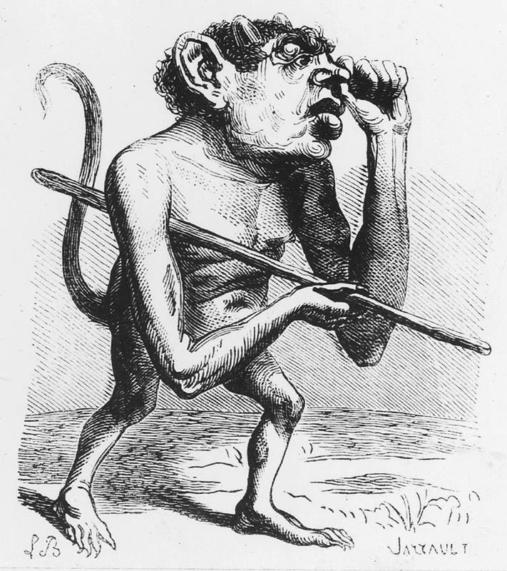 Ronwe, the demon who gives knowledge of language, Dictionnaire Infernal, downloaded from